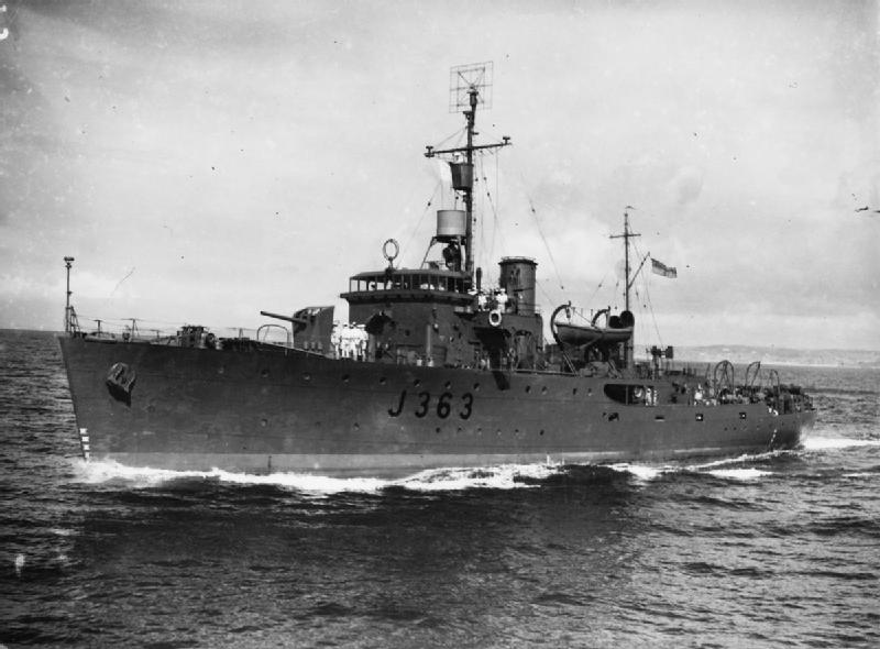 Photograph of Australian corvette HMAS Strahan.